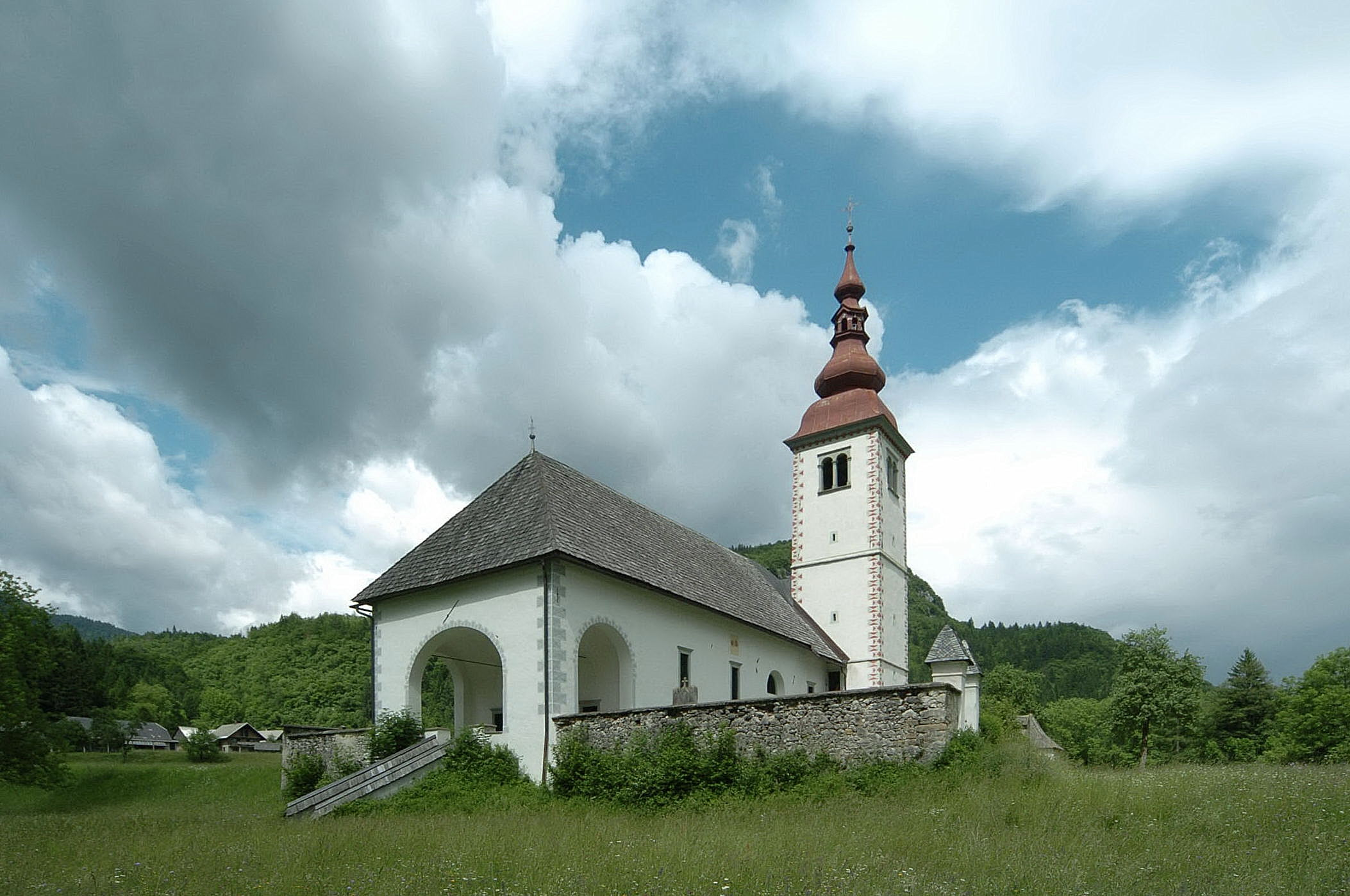 Church "Assumption Day" at Bitnje near Bohinjska Bistrica in the municipality Bohinj, Julian Alps, Gorenjska, Slovenia